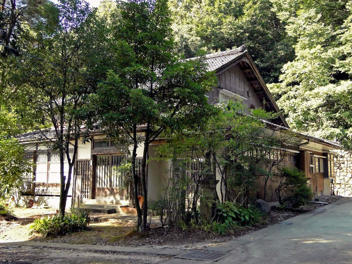 Ogawasan Senkouji Renzoubo